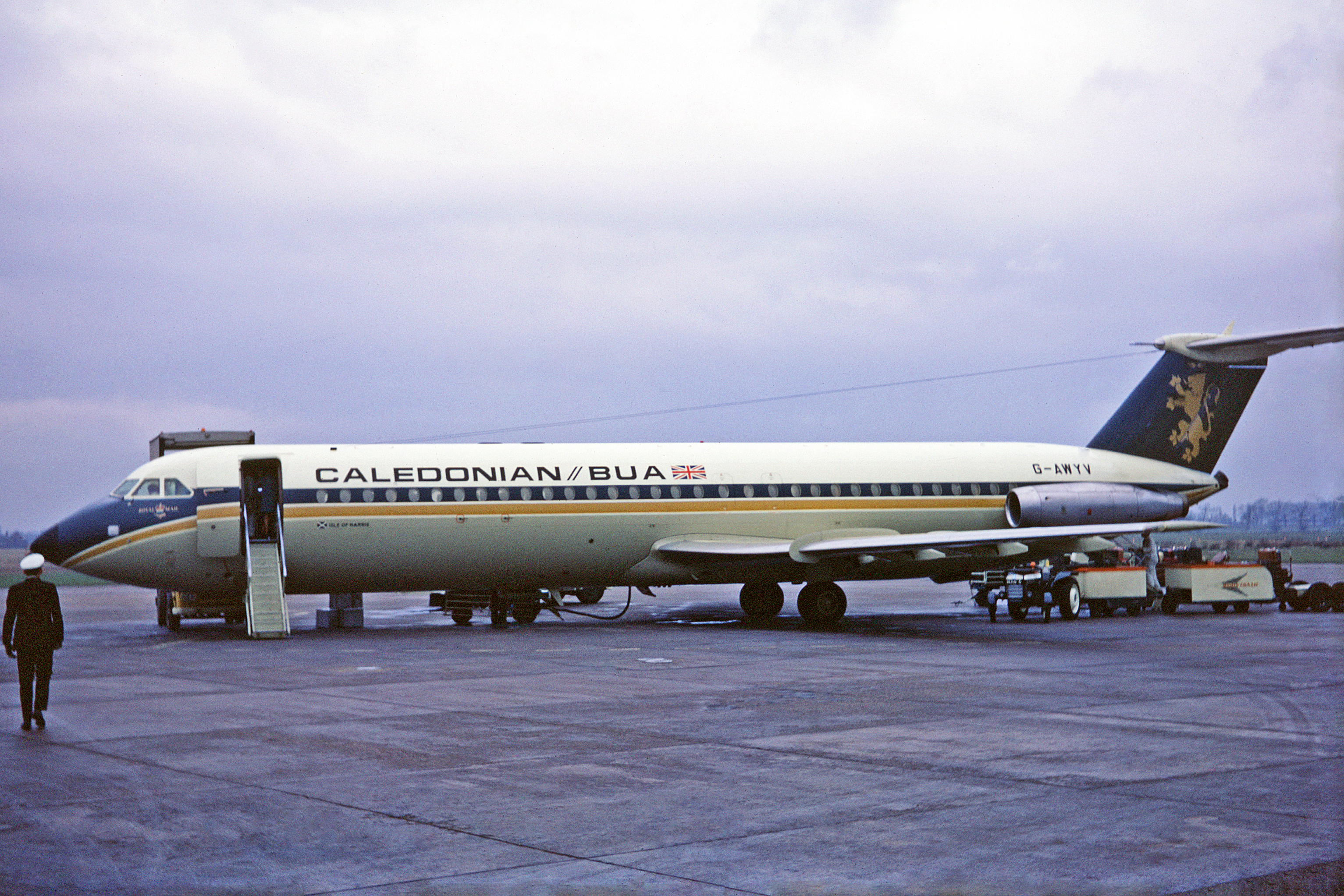 When the original Caledonian Airways merged with British United Airways (OK, really it was a takeover by Caledonian, a bit like a minnow swallowing a whale!), it was called Caledonian // BUA for a few months until it was decided to call it British Caledonian. Not many aircraft were repainted with these titles, so photo's are not that common.